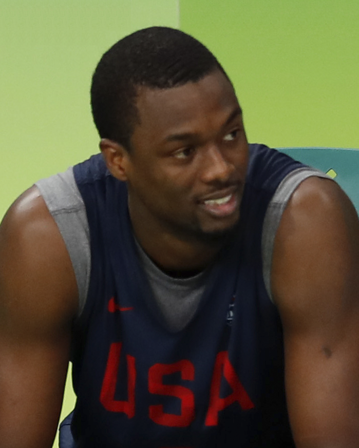 Harrison Barnes at the 2016 Summer Olympics